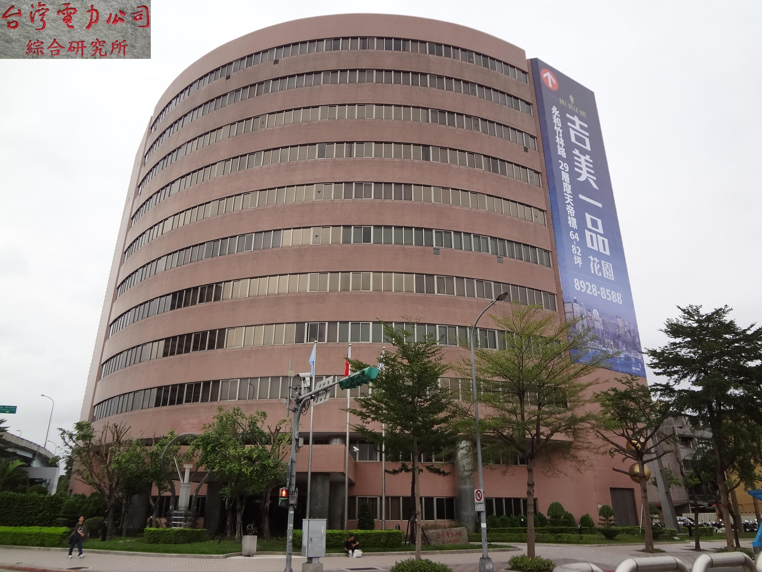 Taiwan Power Research Institute